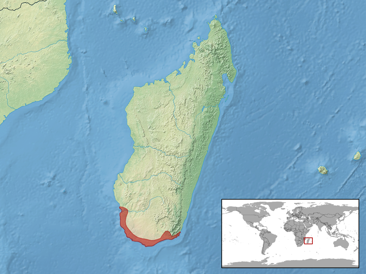 geographic distribution of Androngo trivittatus